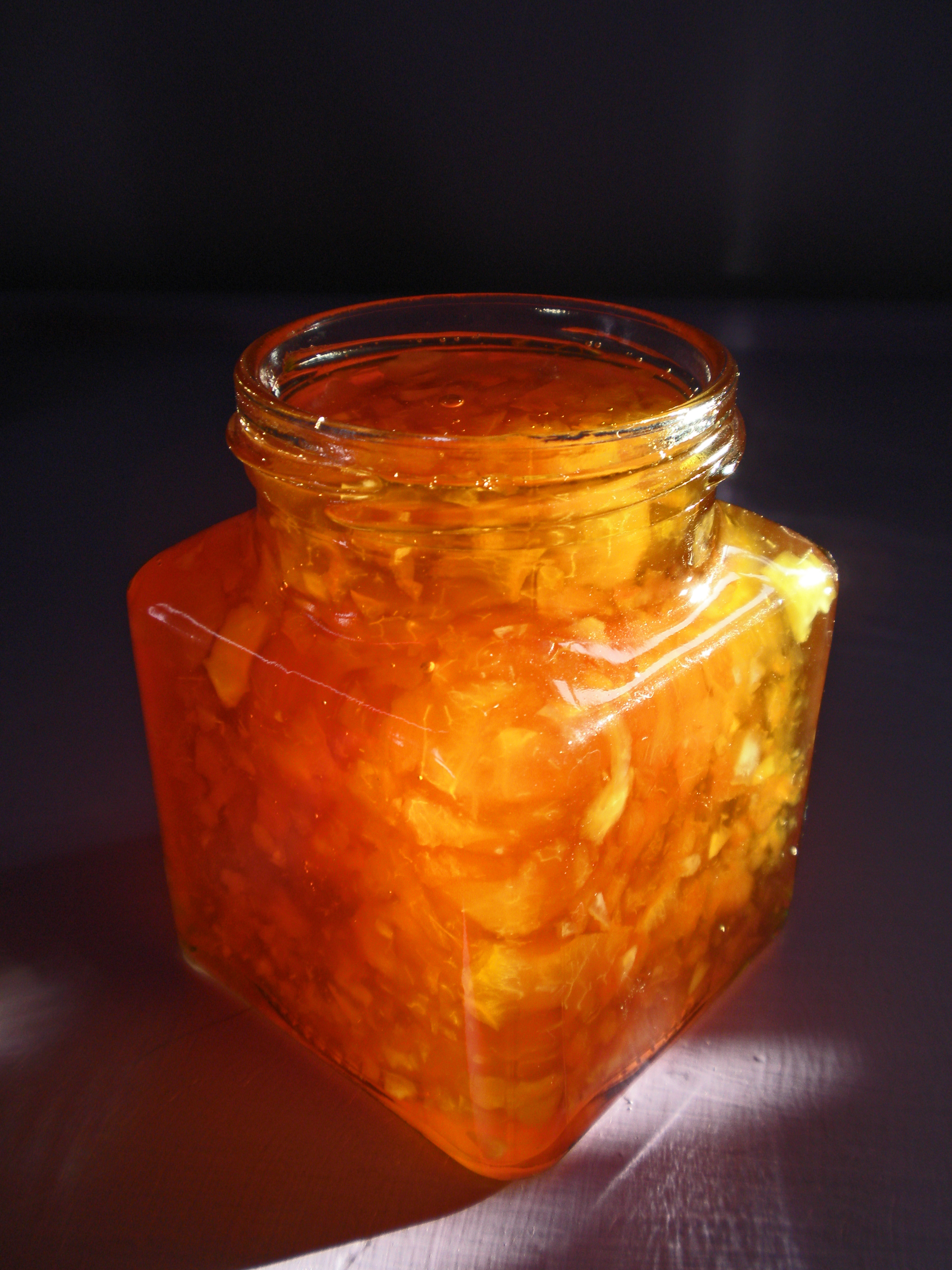 Homemade marmalade from England.